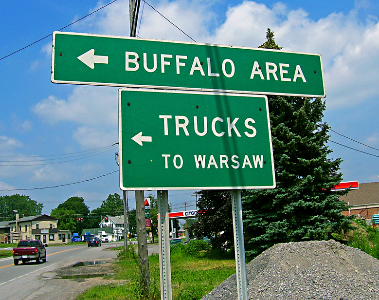 Photographed by Daniel Case 2006-07-31.